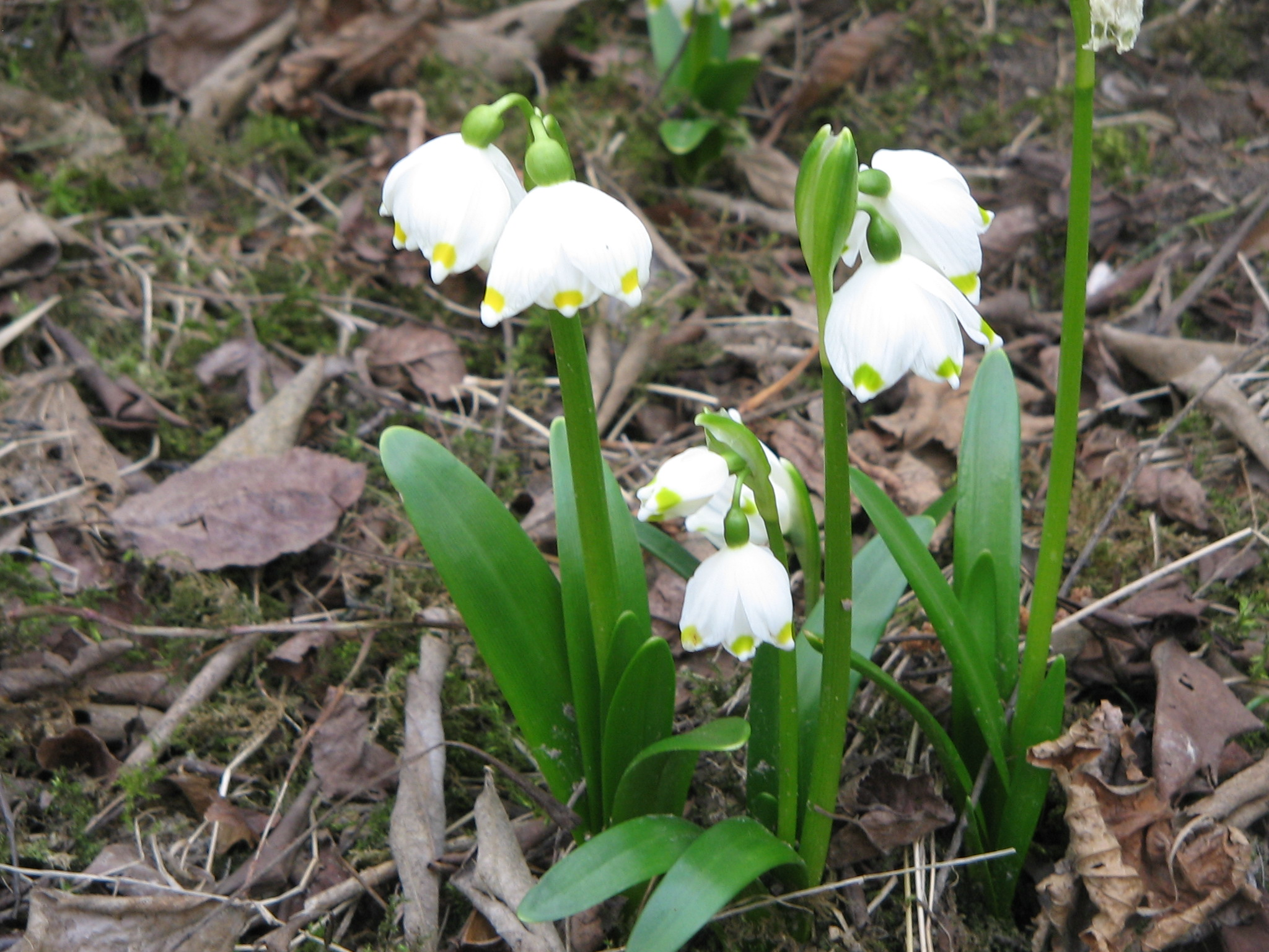 Leucojum vernum 'Podpolozje' & 'Vagneri'